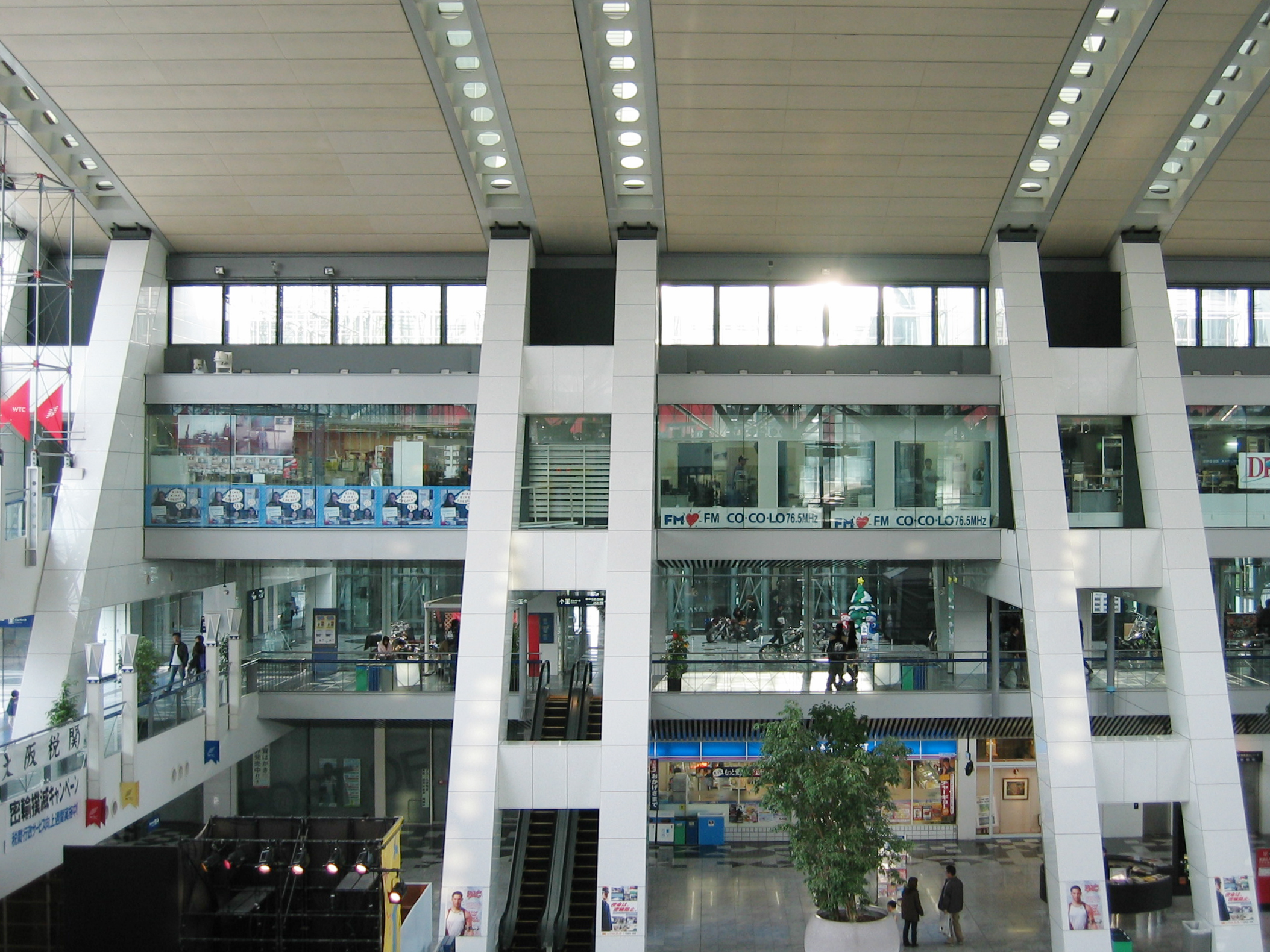 Photograph of inside view of Osaka World Trade Center Building, aka WTC Cosmo Tower, in Suminoe-ku, Osaka, Osaka Prefecture, Japan. On the third floor, FM radio station "Kansai Intermedia", aka "FM COCOLO", faces to the atrium of the building.